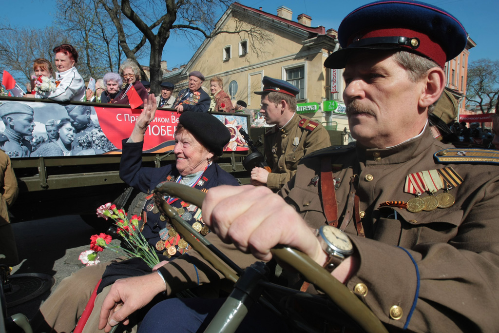 “May 9 holiday in Russian Regions”. Participants in military parade on Nevsky Prospekt in St. Petersburg held on the 66th anniversary of victory in the Great Patriotic War